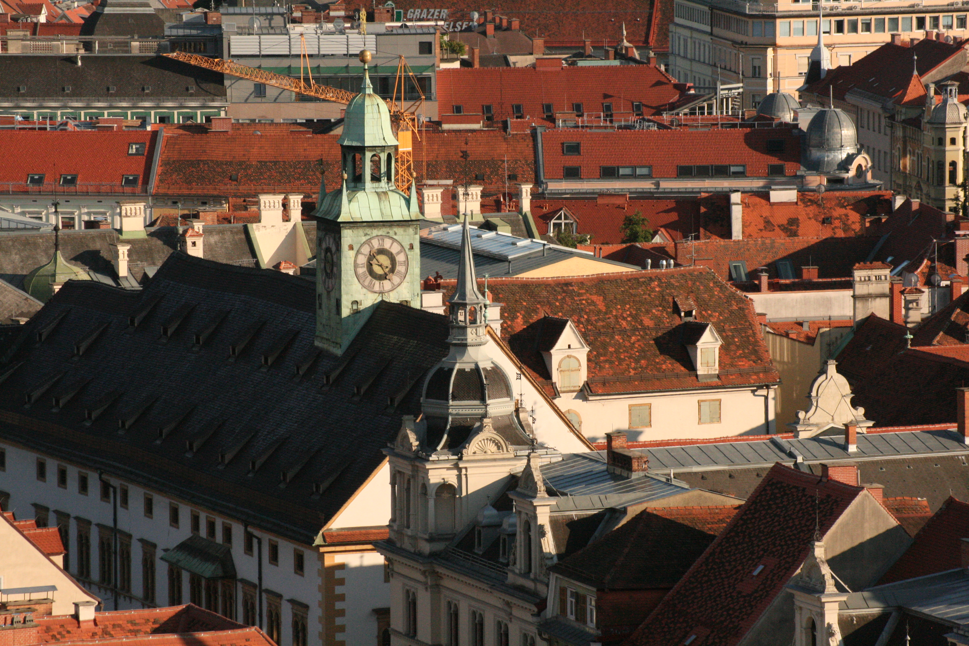 "Landhaus" in Graz, Austria, Europe